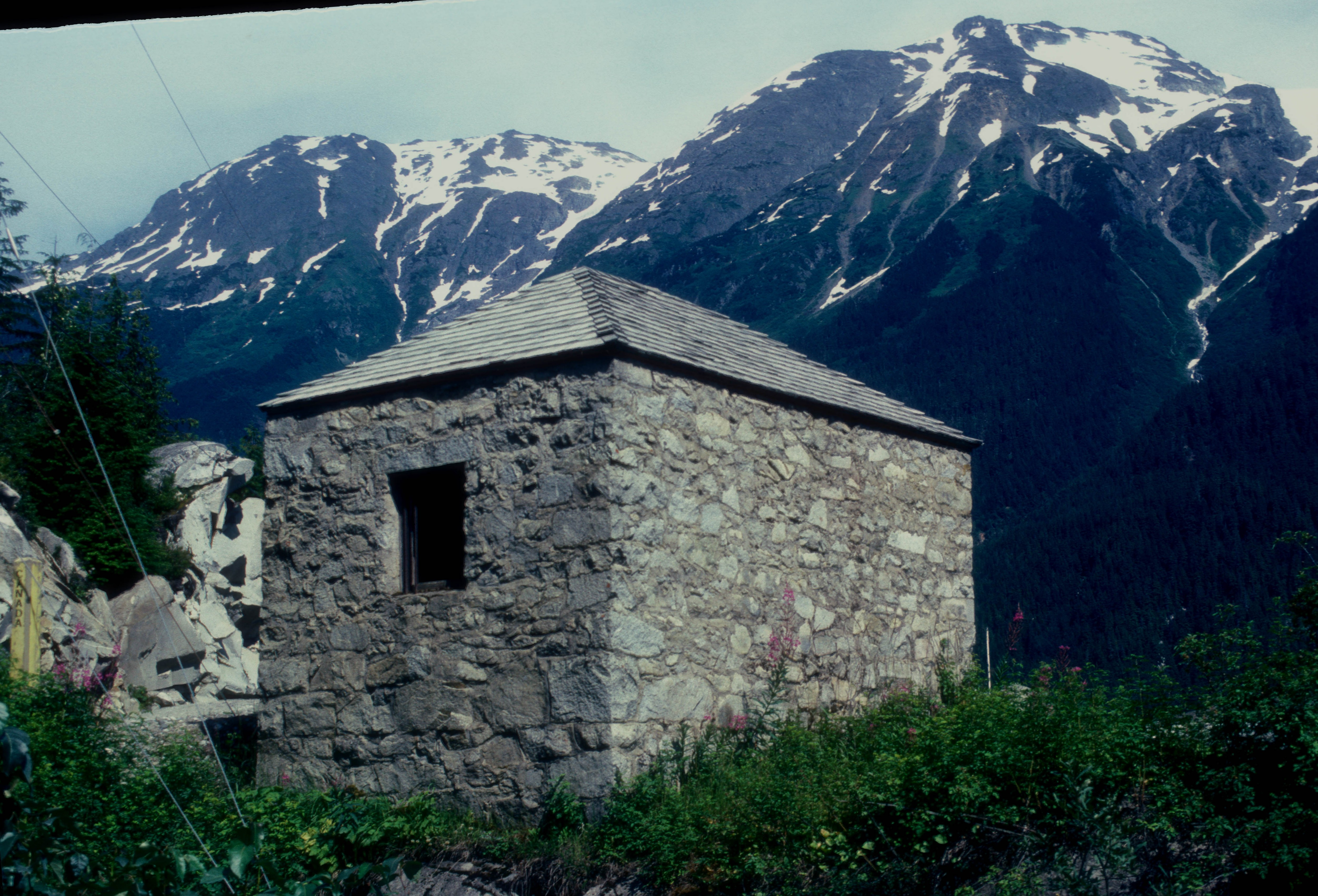 Storehouse No. 4, built by David du Bose Gaillard, an Army engineer for whom the Gaillard Cut in the Panama Canal is named